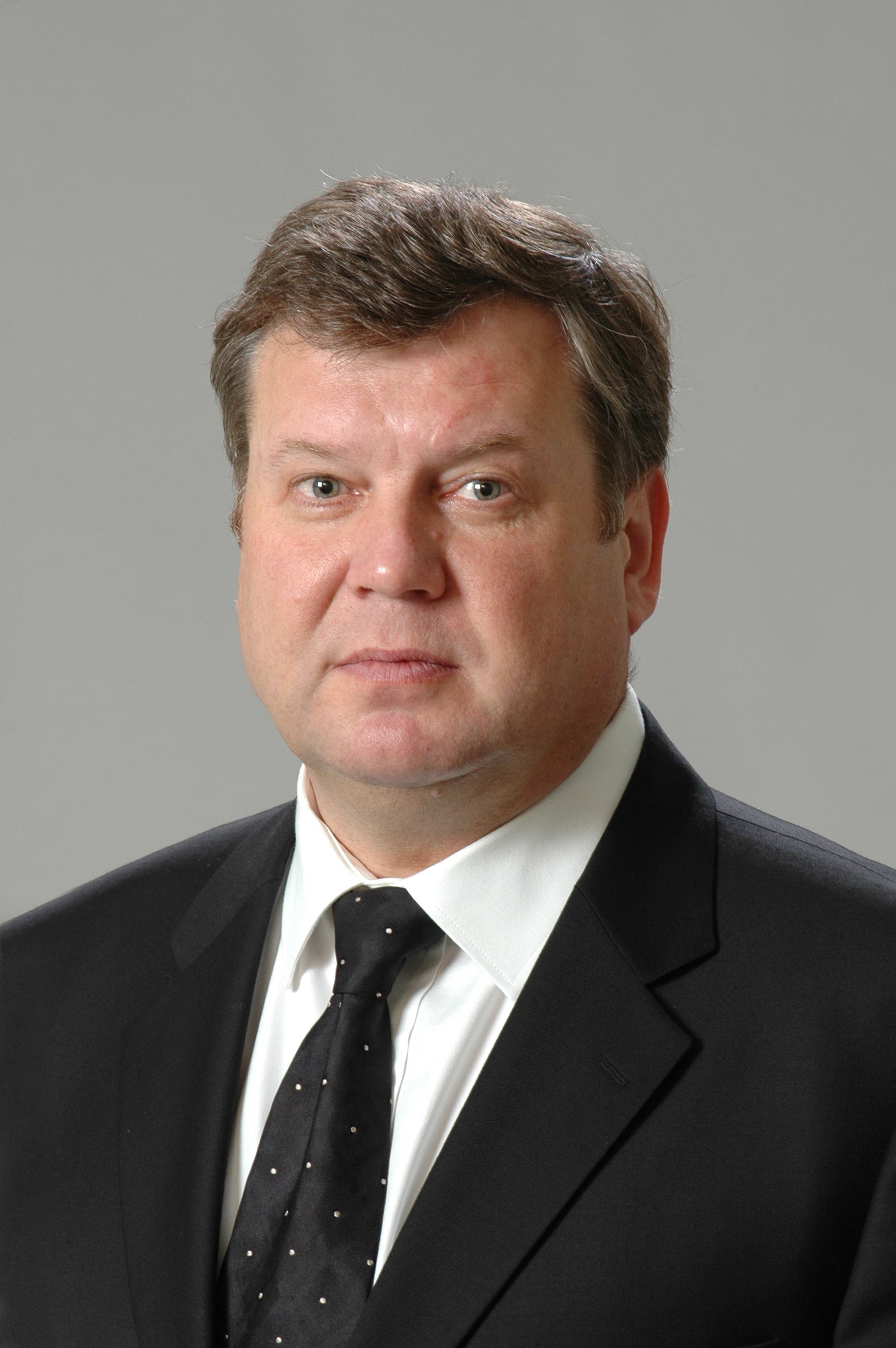 Deputy of the 9th Saeima and leader of the Harmony Party Jānis Urbanovičs.